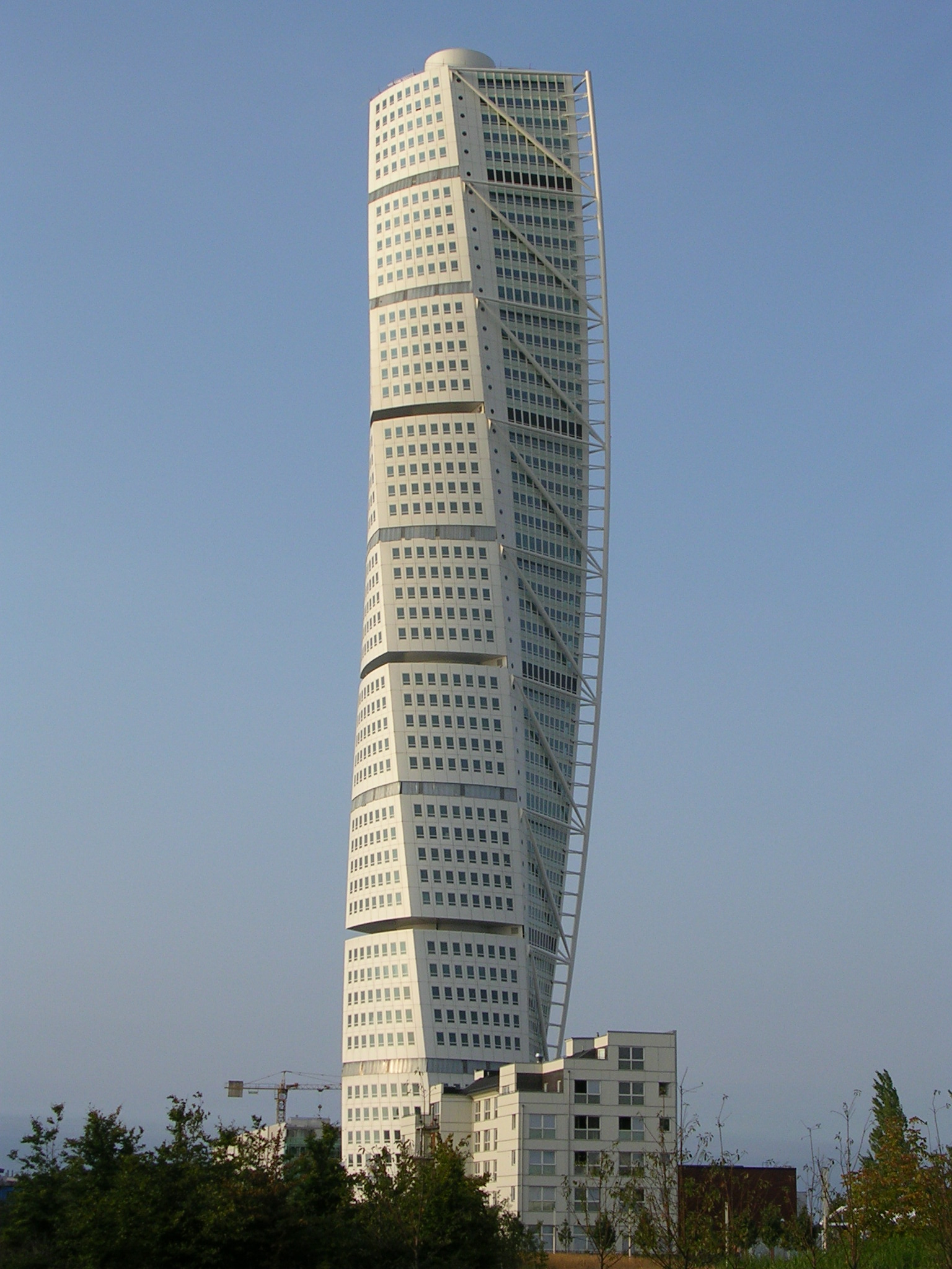 Turning Torso building in Malmö, Sweden. Designed by the Spanish architect Santiago Calatrava it was officially opened on 27 August 2005.